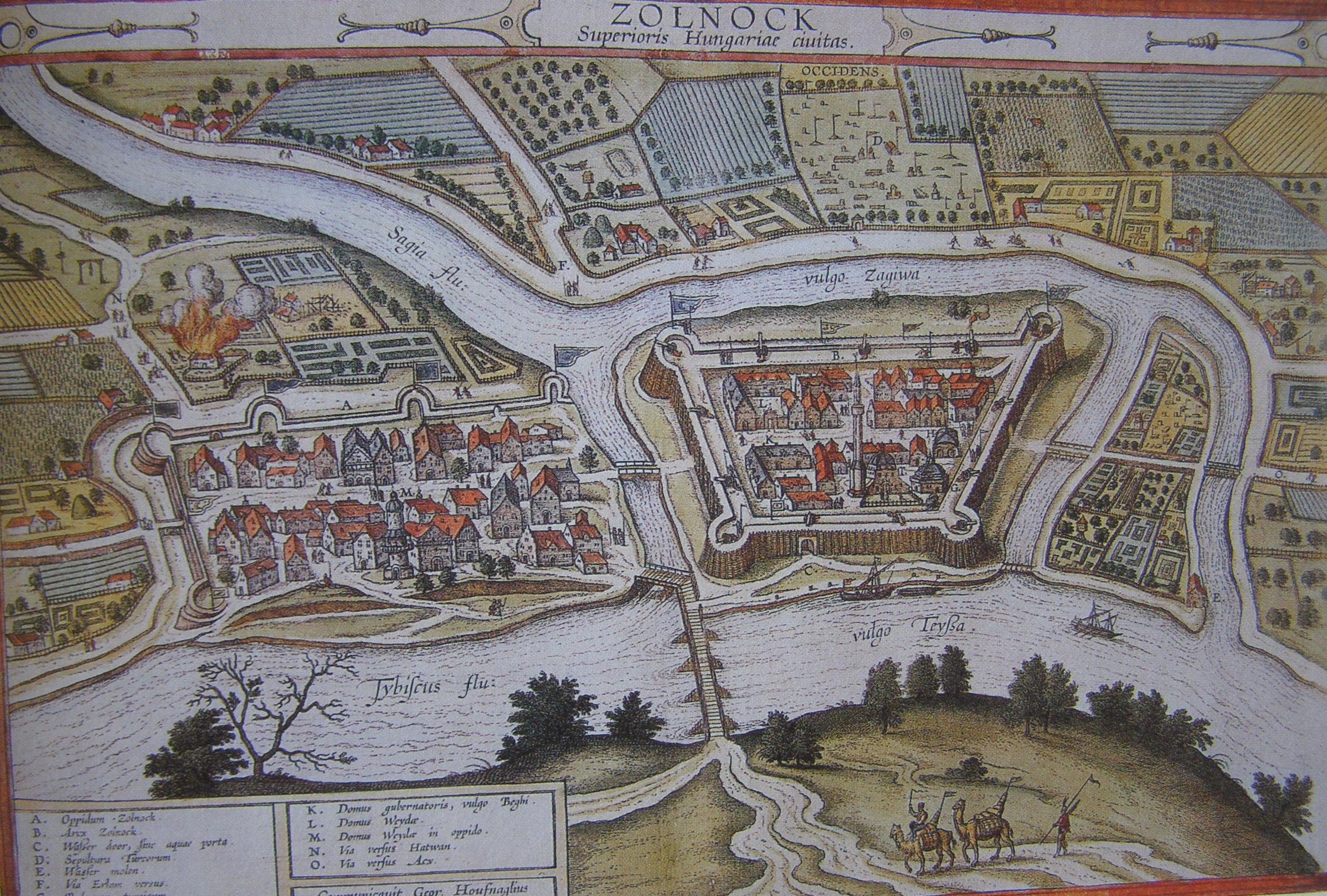 Szolnok in 1617